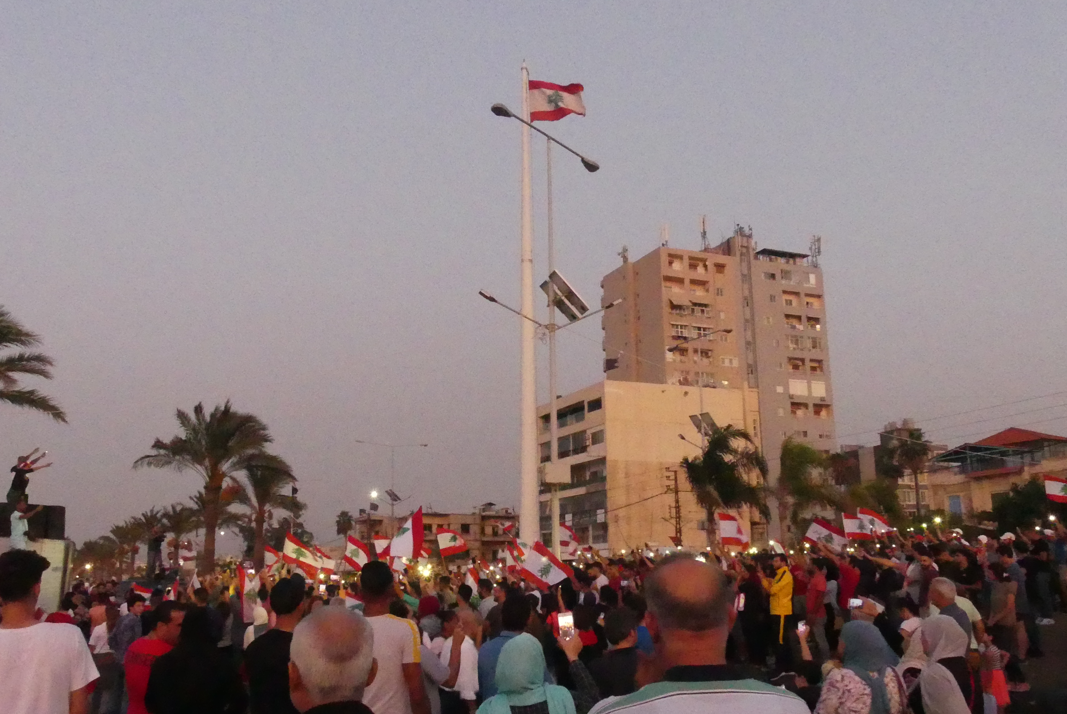 Protestors in Tyre/Sour, Southern Lebanon, hailing the national flag during nonsectarian demonstrations against government corruption and austerity measures that started across the country on October 17th, 2019. Elissar Square as the venue features the highest flagpole of Lebanon (32.6 meters) with a flag of 11 X 19 meters.